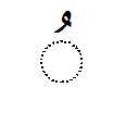 The letter Damma from the Arabic alphabet, belonging to the group of Harakat diacritic marks, used to represent vowels. Damma sounds like a short /u/. The circle indicates the position of the consonant the Harakat is used upon.